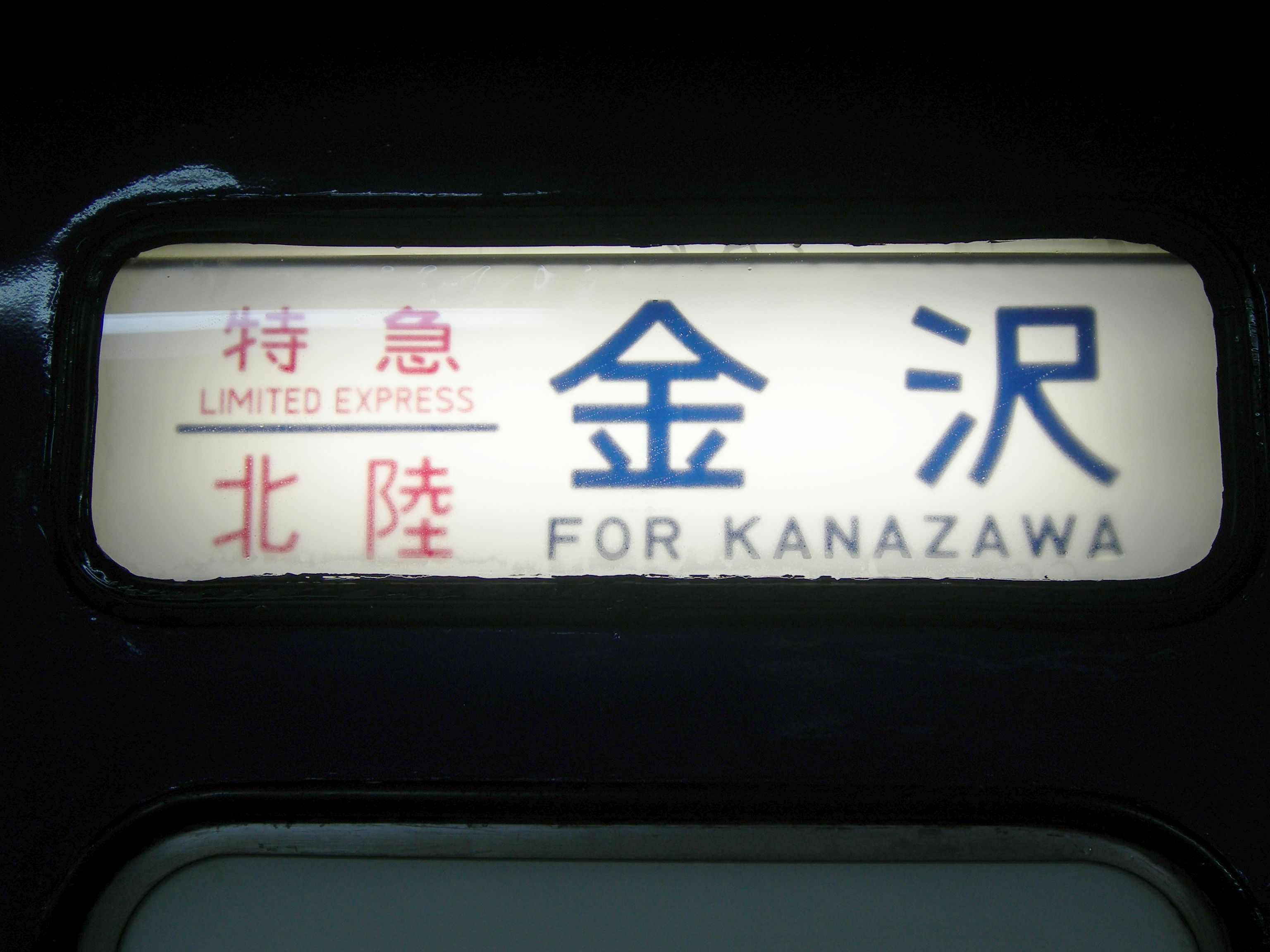 Information board on sleeper limited express train Hokuriku